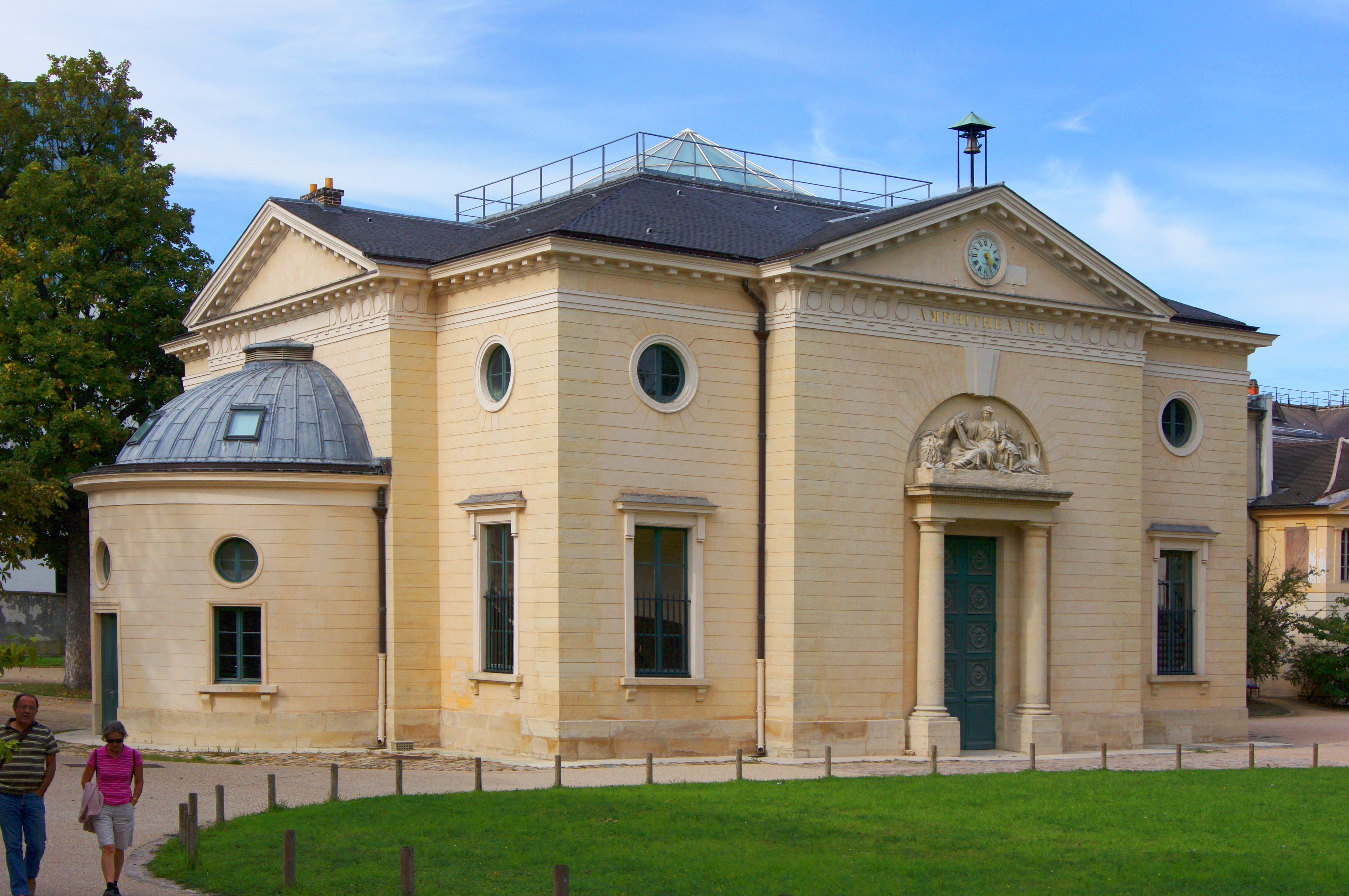 The "Amphithéâtre" of the Museum national d'Histoire Naturelle in Paris